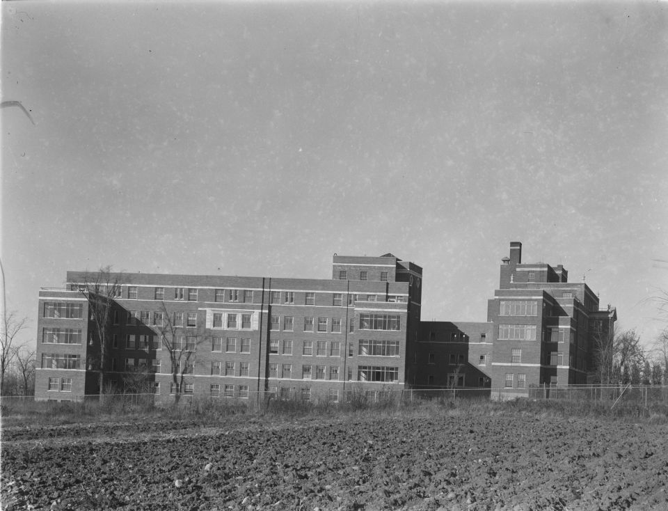 For documentary purposes the original description provided by BAnQ has been retained. Additional descriptive text may be added by Wikimedians with the wiki description = parameter, but please do not modify the other fields.